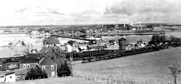 Bird’s eye view, railway in foreground, harbour and city in background. ca. 1930’s.